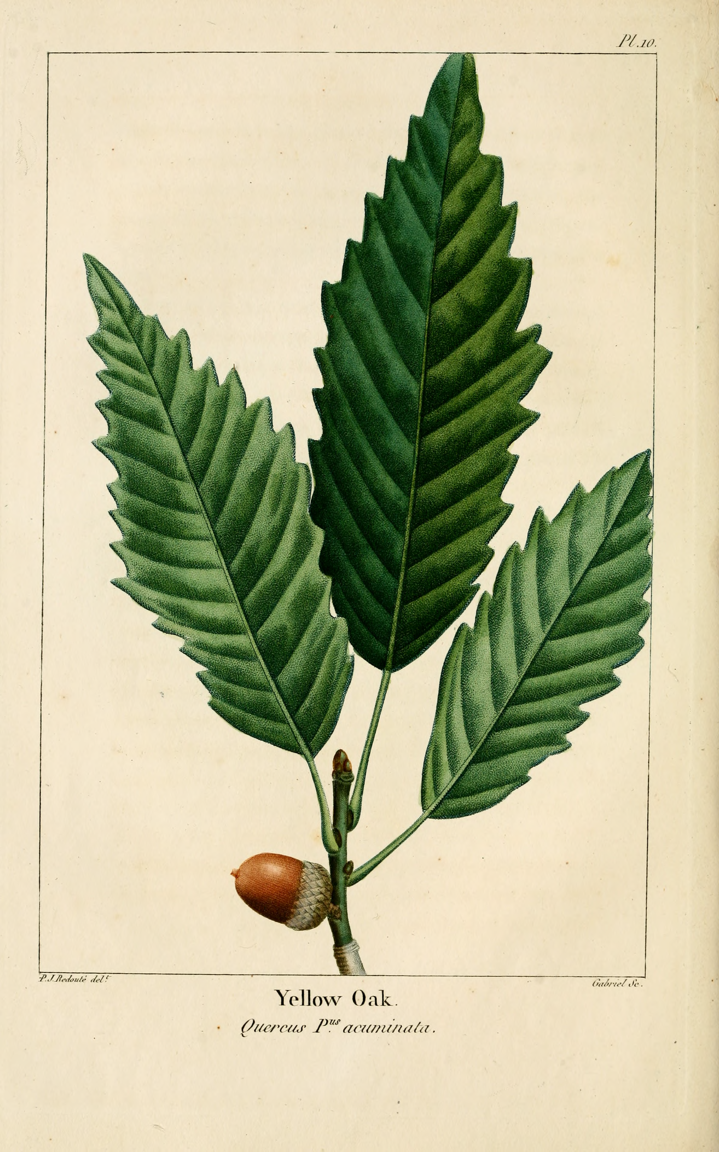 Quercus muehlenbergii - Caption: Yellow Oak, Quercus Pus. acuminata [Q. prinus var. acuminata]